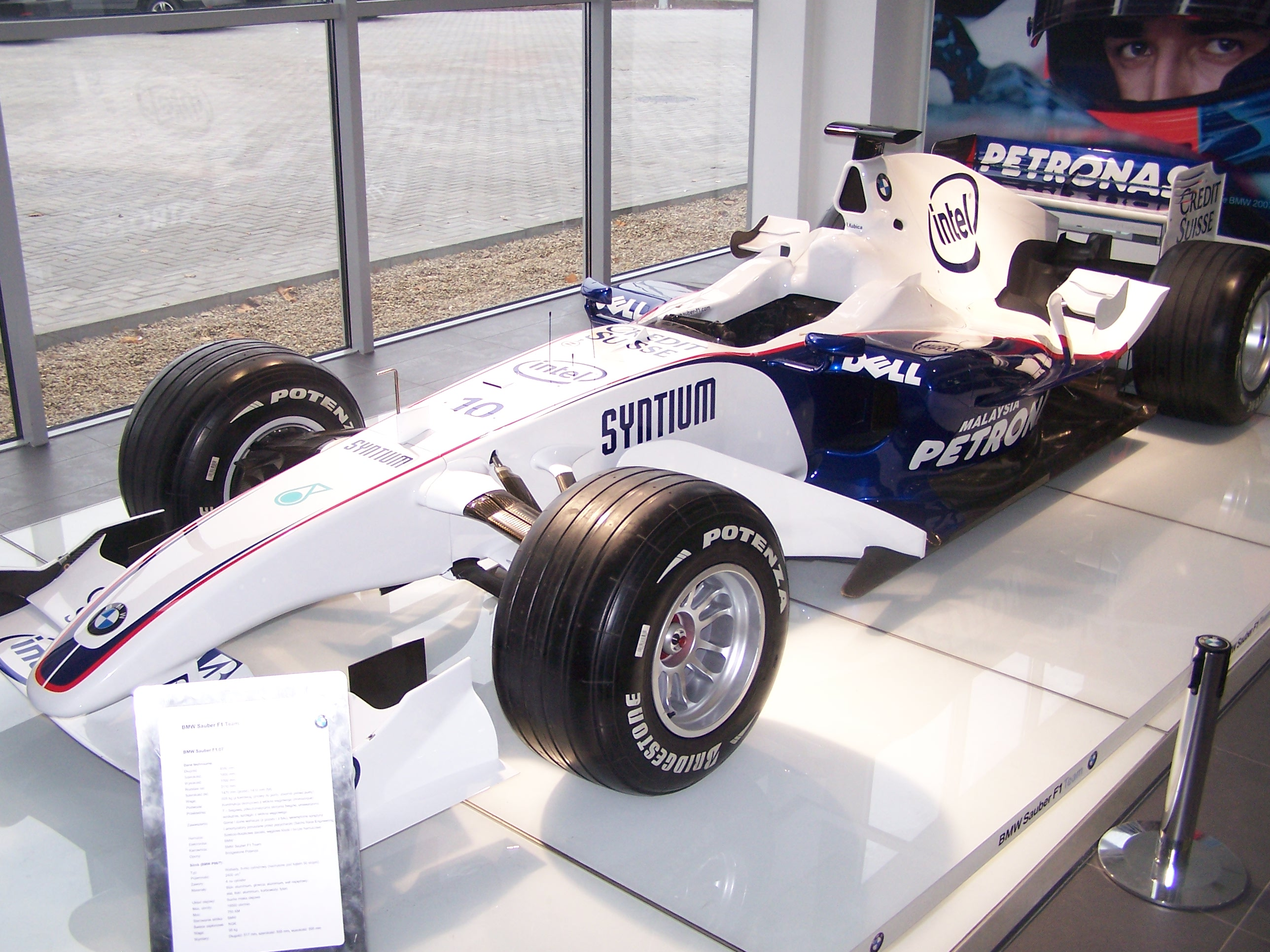 BMW Sauber F1.07 a Formula One single-seater racing car built by BMW Sauber for the 2007 Formula One season.